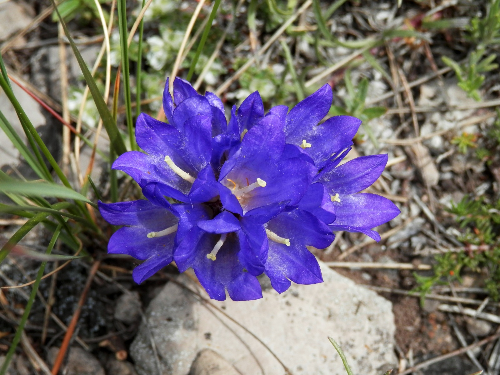 Edraianthus serbicus on Mount Golo Bardo, Bulgaria